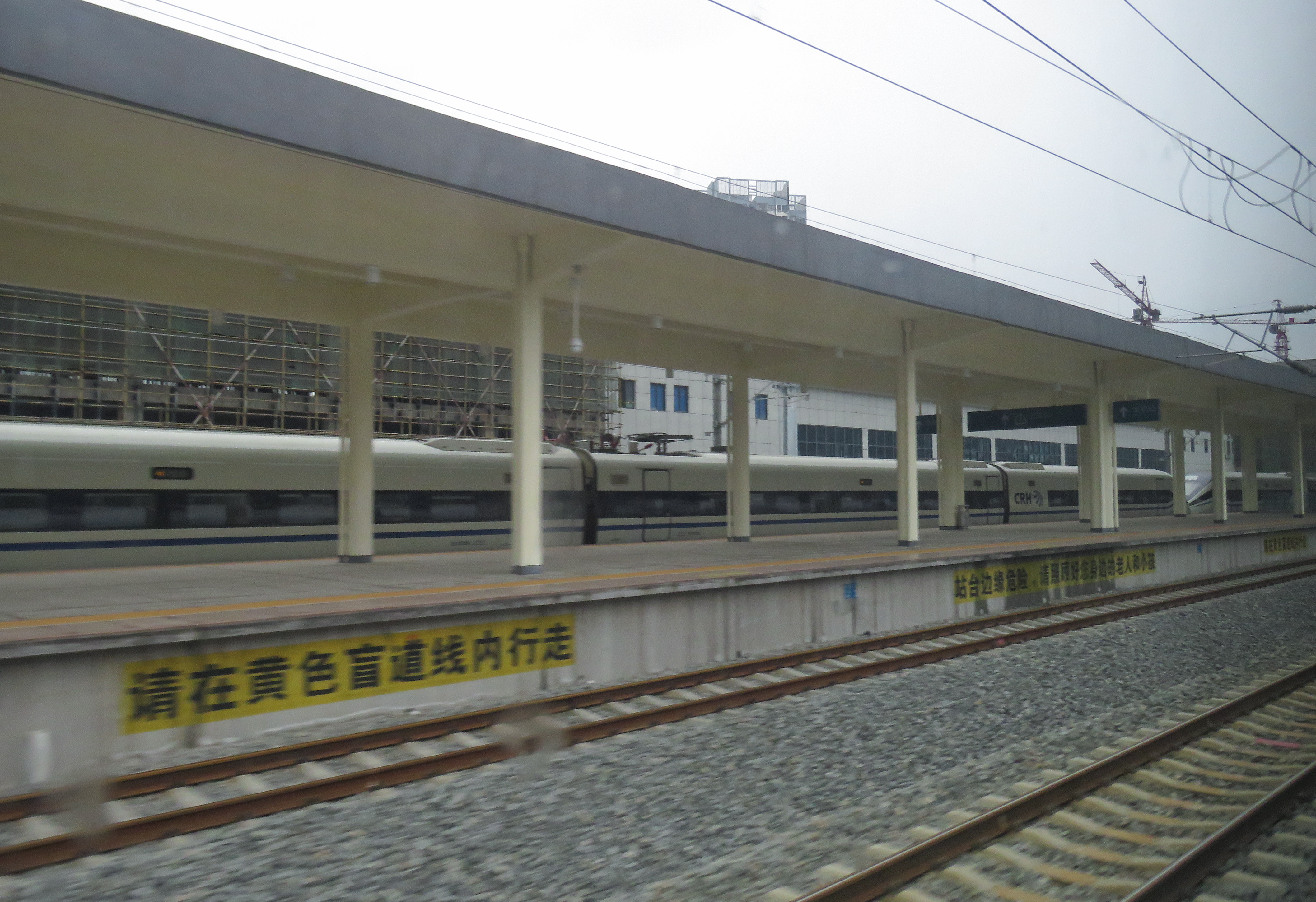 Something close to the station building is under construction.